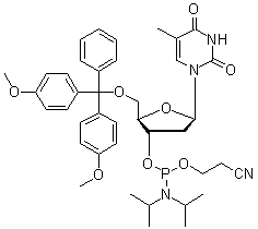 thymidine phosphoamidite